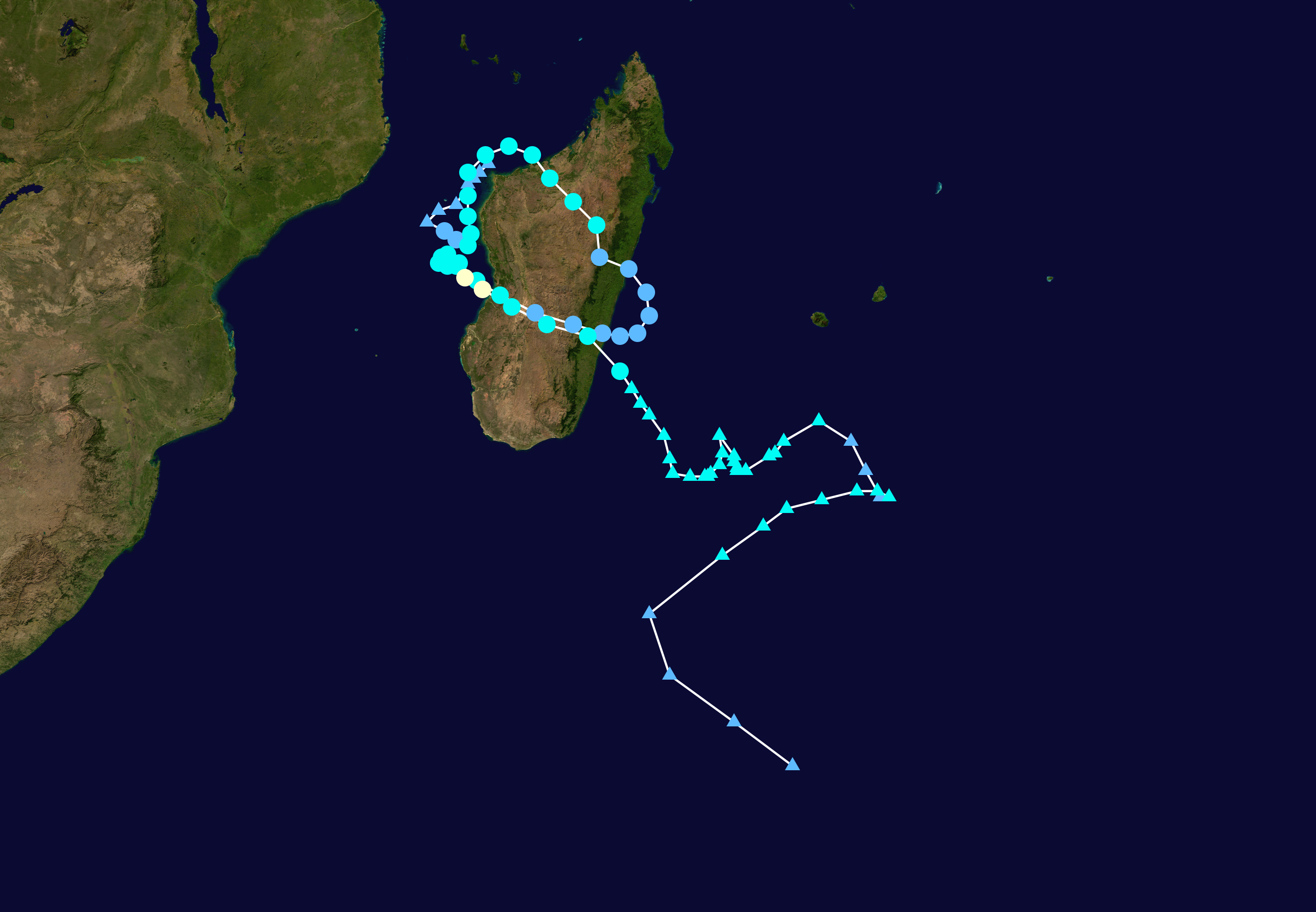 Cyclone Elita (2004) track. Uses the color scheme from the Saffir-Simpson Hurricane Scale.